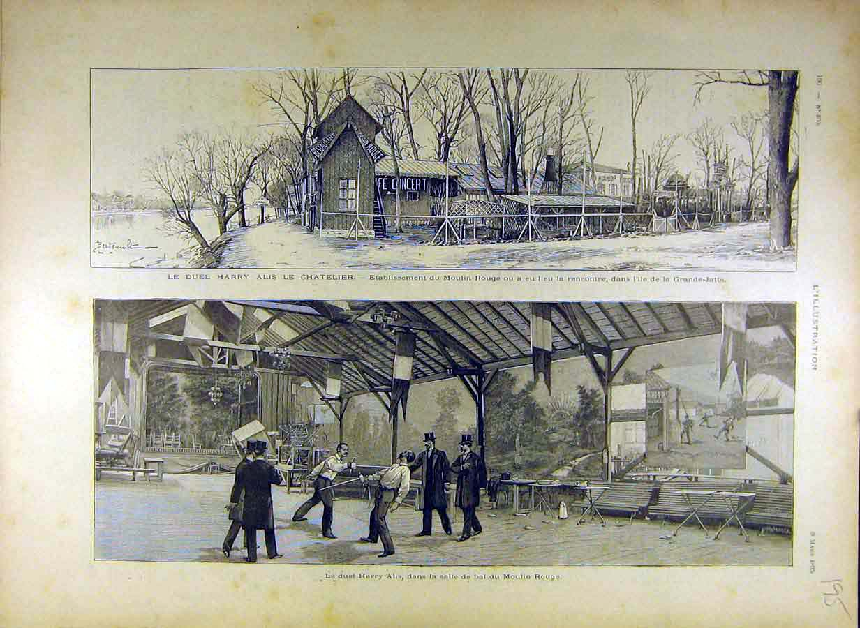 The exterior and interior of the Moulin Rouge and the duel between Harry Alis and Alfred Le Chatelier, 1 March 1885